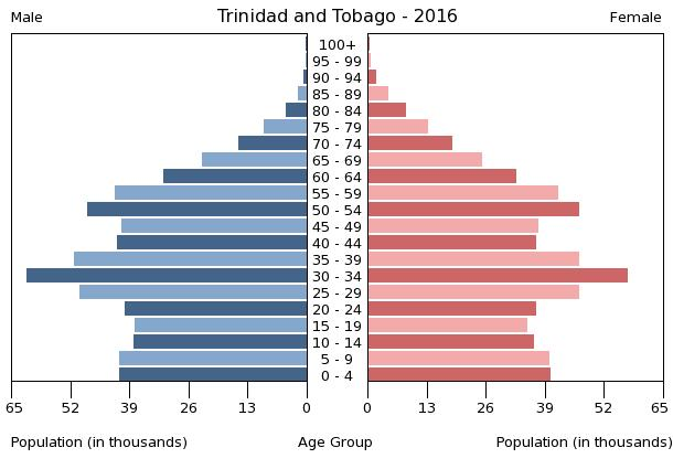 The population pyramid of Trinidad and Tobago illustrates the age and sex structure of population and may provide insights about political and social stability, as well as economic development. The population is distributed along the horizontal axis, with males shown on the left and females on the right. The male and female populations are broken down into 5-year age groups represented as horizontal bars along the vertical axis, with the youngest age groups at the bottom and the oldest at the top. The shape of the population pyramid gradually evolves over time based on fertility, mortality, and international migration trends.